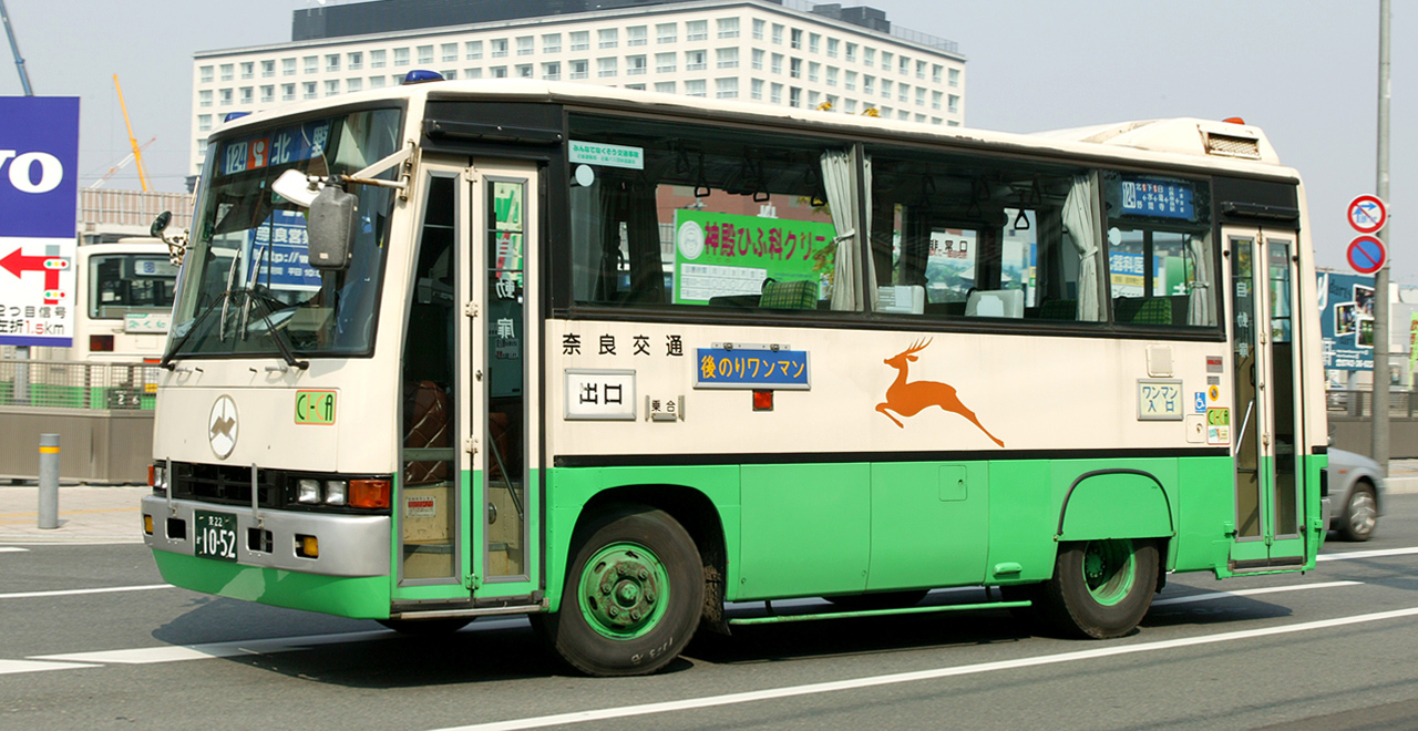 Nara Kotsu Isuzu Journey Q ( type MR112D at JR Nara Sta. )